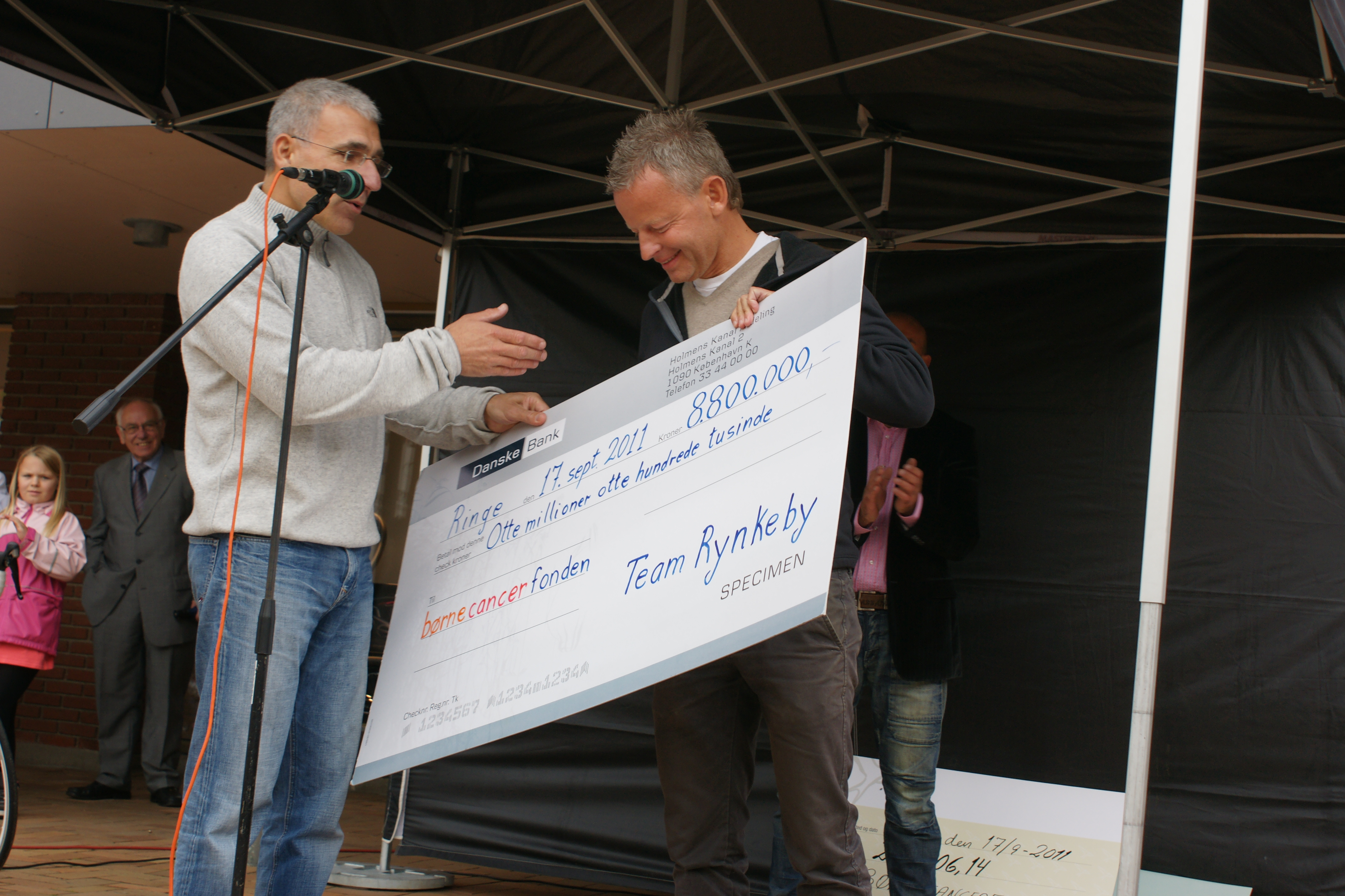 Team Rynkeby overrækker i 2011 checken til Børnecancerfonden på 8,8 mio. DKK.